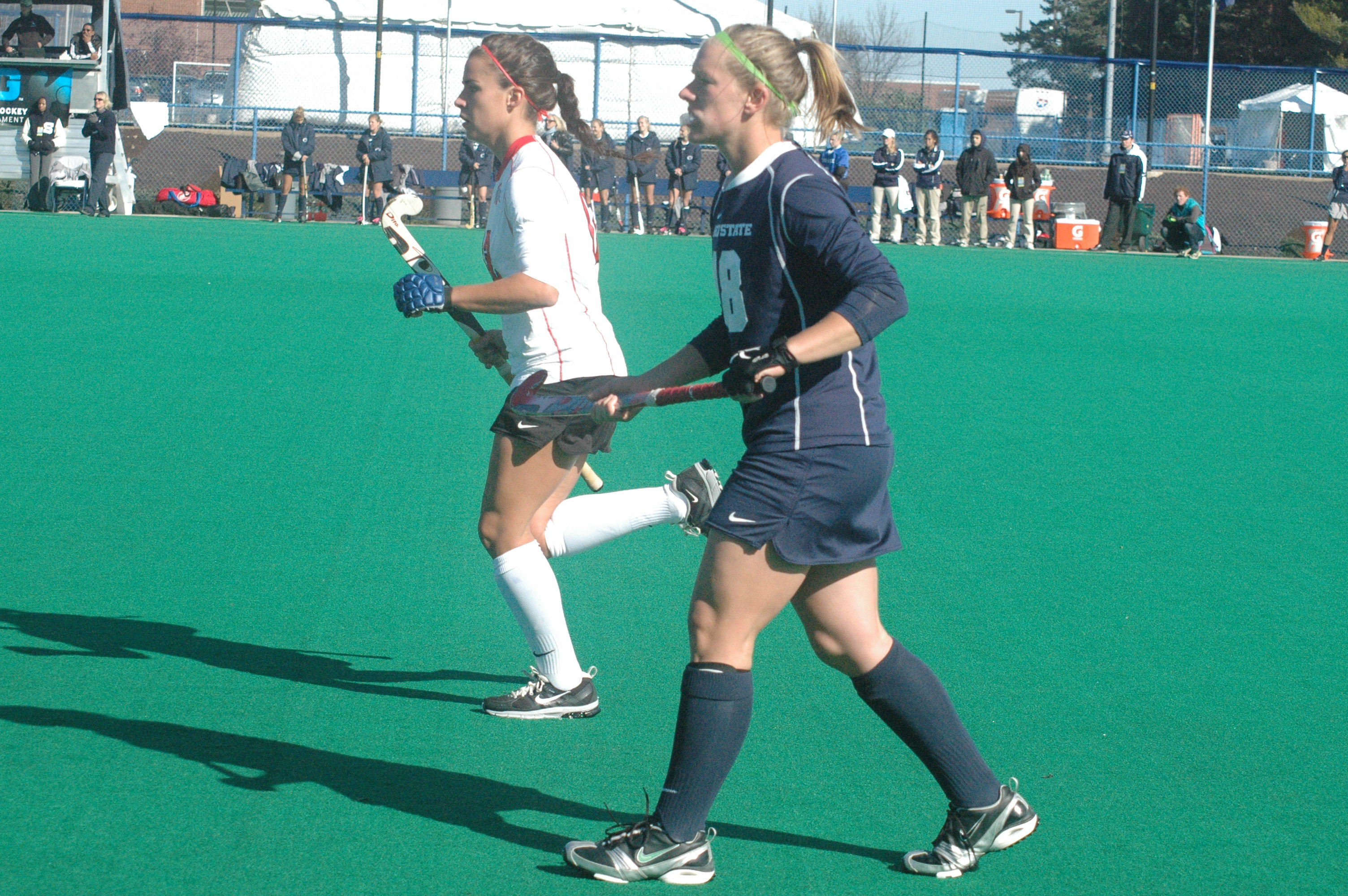 The Ohio State Buckeyes vs. the Penn State Nittany Lions during a 2011 Big Ten Field Hockey Tournament semifinal in University Park, Pennsylvania.